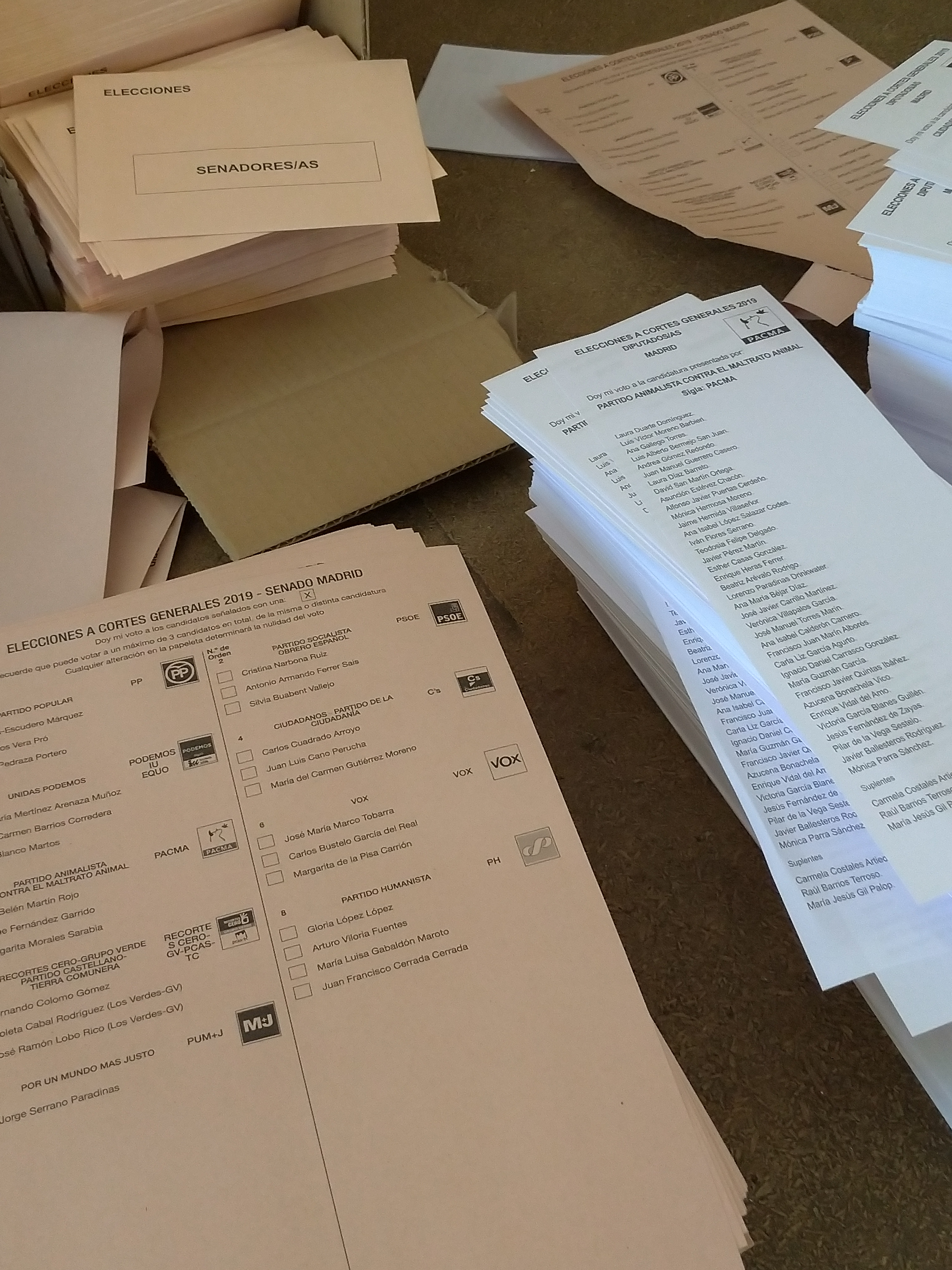 Spanish 2019 general elections envelops for Senate voting, Senate ballots and deputy ballots for PACMA at Colegio Publico Bravo Murillo in Madrid.